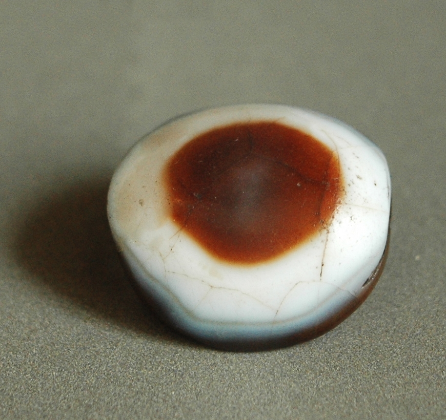 Votive eye bearing the name of Warad-Sin, king of Larsa. Agate, early 2nd millenium BC.